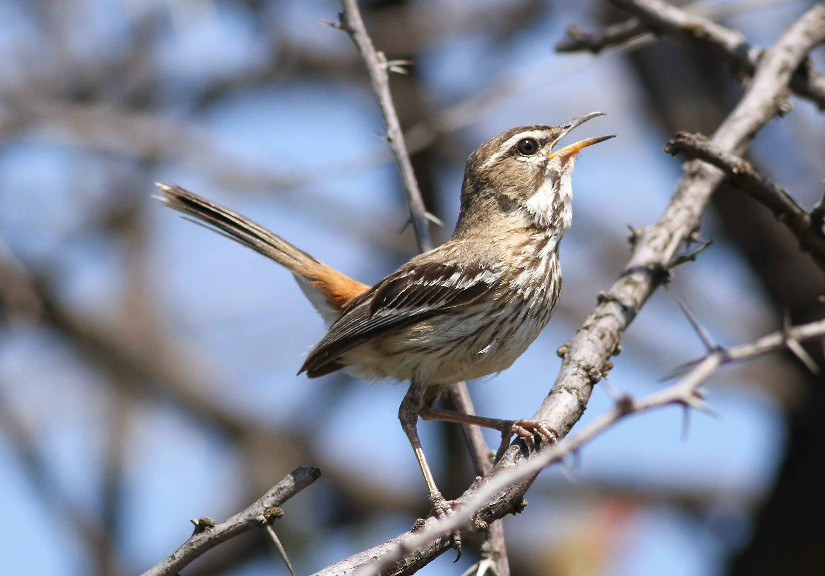 White-browed scrub robin, Cercotrichas leucophrys at Pilanesberg National Park, Northwest Province, South Africa